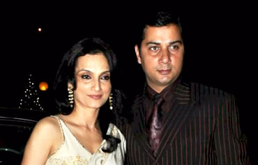 Rajeshwari Sachdev and Varun Badola at Abhinav & Ashima Shukla's wedding reception